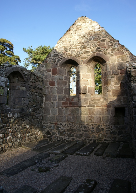 St Blane's Church, Bute, Scotland. Chancel.